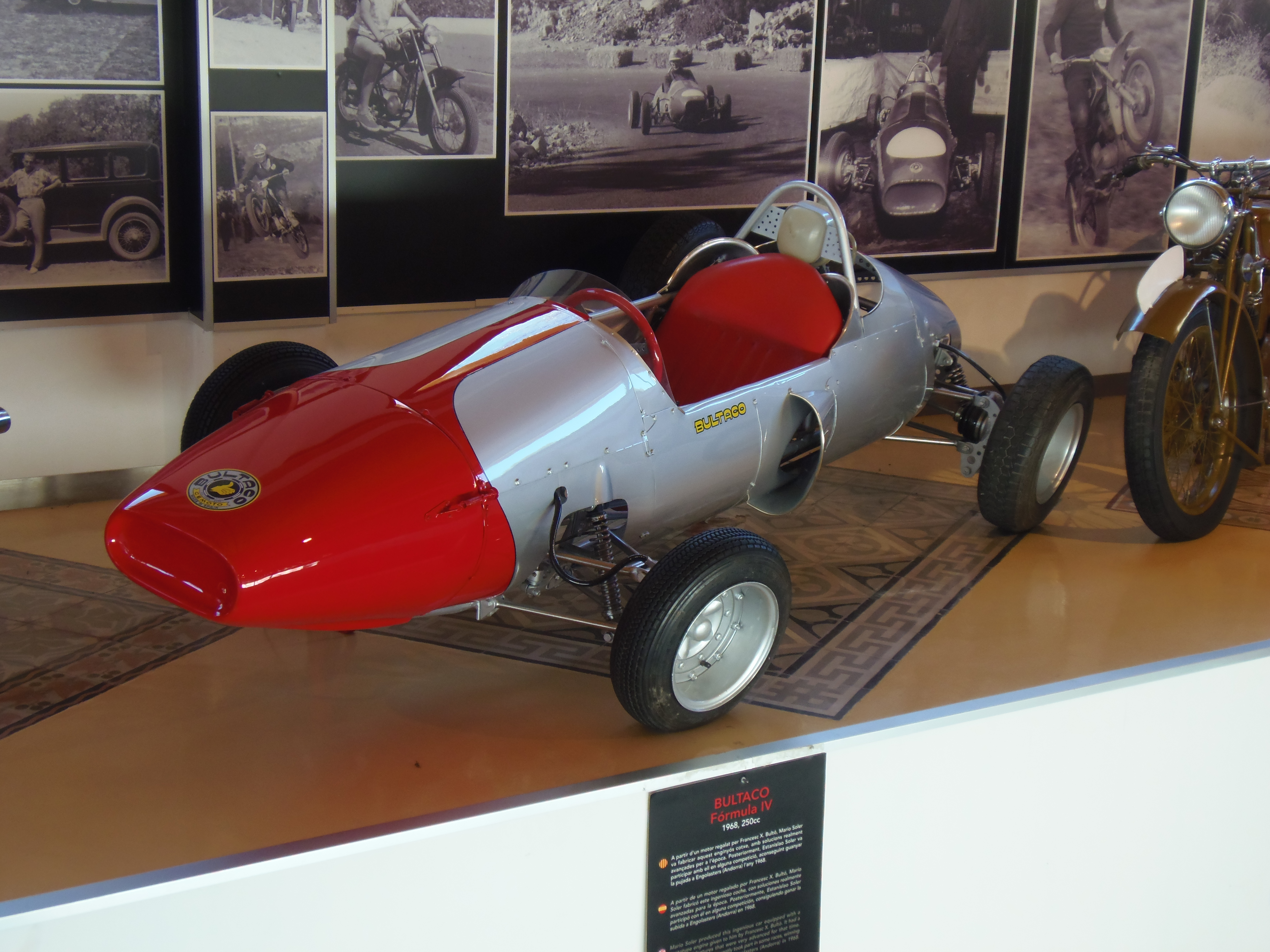 Bultaco Fórmula IV 250cc (1968). Mario Soler built this car, equipped with an engine that Paco Bultó gave to him. Estanis Soler won a race with this car.